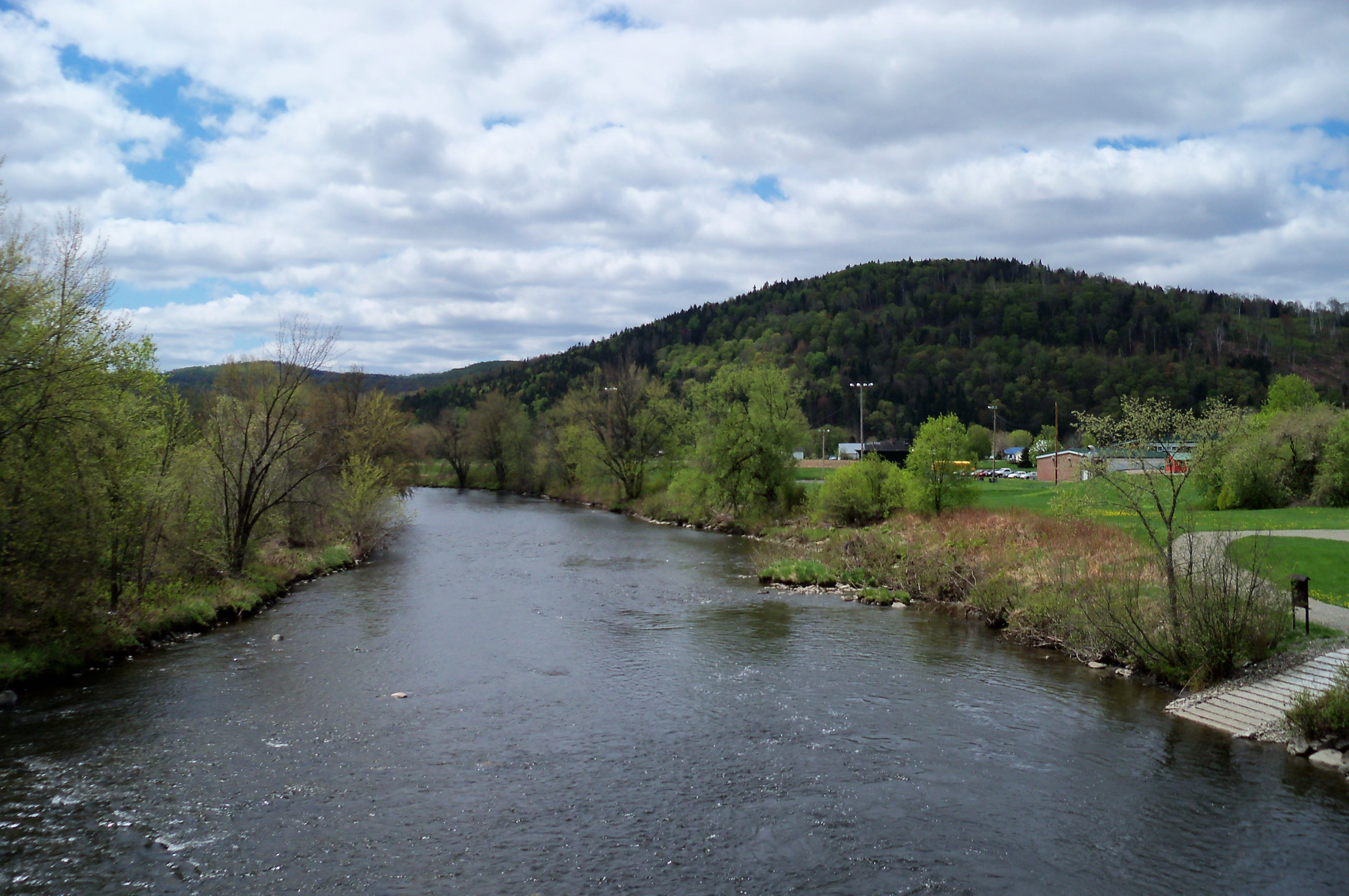 Connecticut River 7